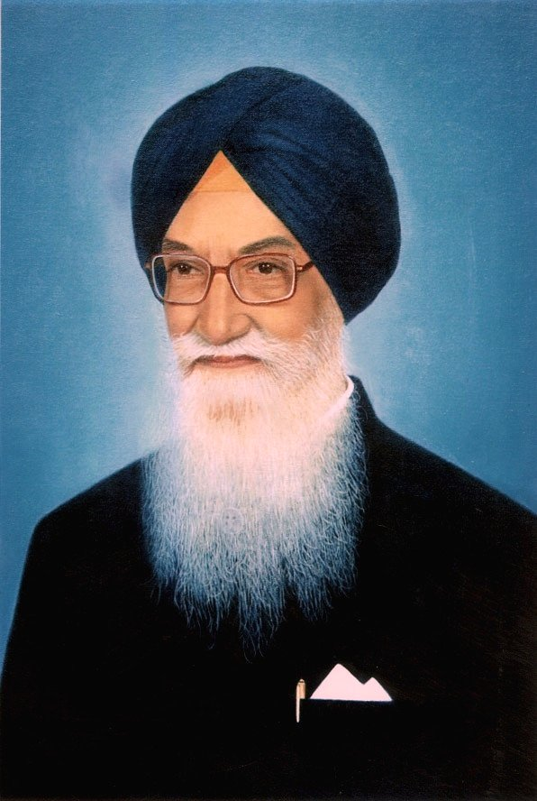 oil on canvas; 30" X 24" When I met His Excellency I expressed my willingnes to do his portrait. He so kindly responded immediately. As soon as the portrait was completed I invited H.E. to visit my studio for approval of the portrait and to see some other paintings done by me. H. E so graciously accepted my invitation and honored me by visiting my studio in 2006. I would cherish this golden moment in my career as a portrait artist. I am always grateful to H.E. for the rare gesture displayed with great concern for an artist. He himself a very good artist, has a special place in my heart. Send your comments to